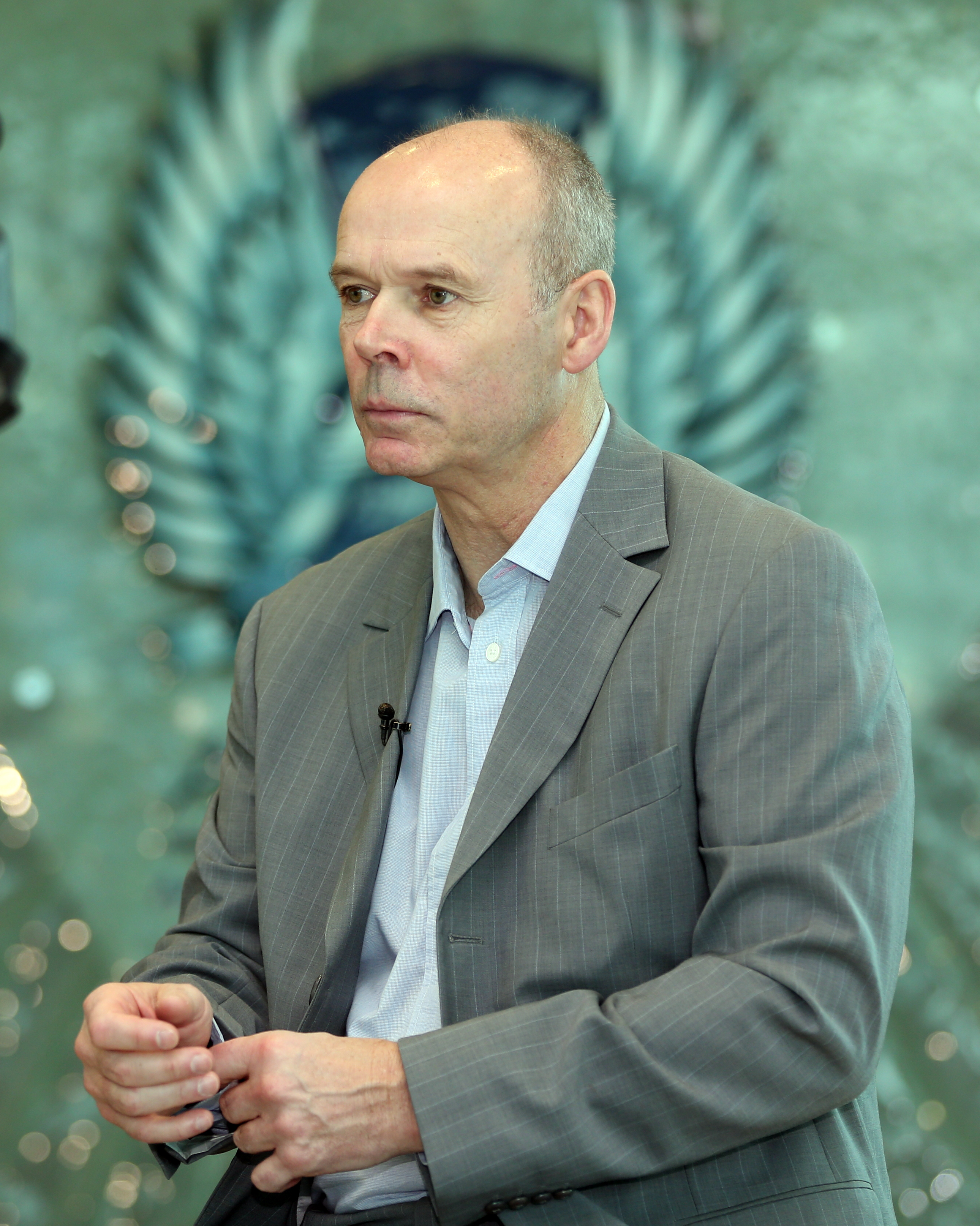 Former England rugby coach Clive Woodward during a visit to the ASPIRE Academy. Picture by Mohan